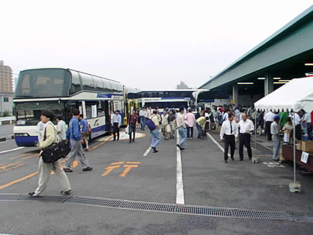 JR Bus Kanto Tokyo Branch